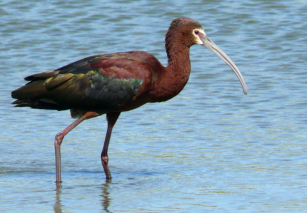 A White-faced Ibis in breeding condition at the mouth of the creek at Arroyo Laguna in California, USA.